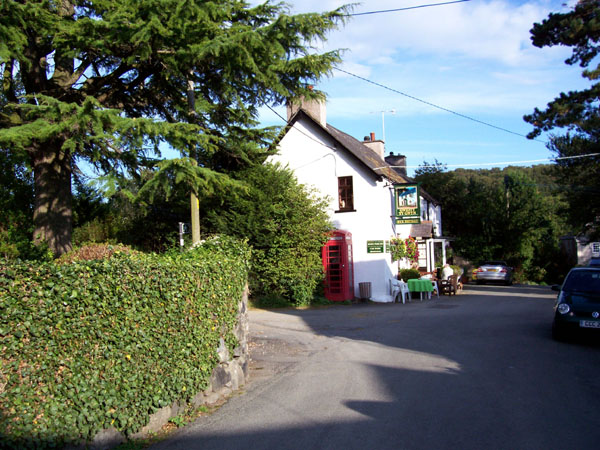 Y Ty Gwyn. Pretty and hospitable pub in Rowen.